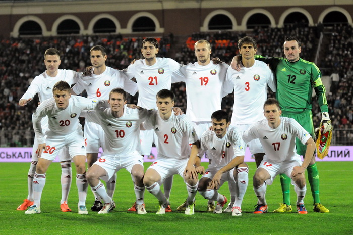 Belarusian national football team before 2014 World Cup qualifier against Spain